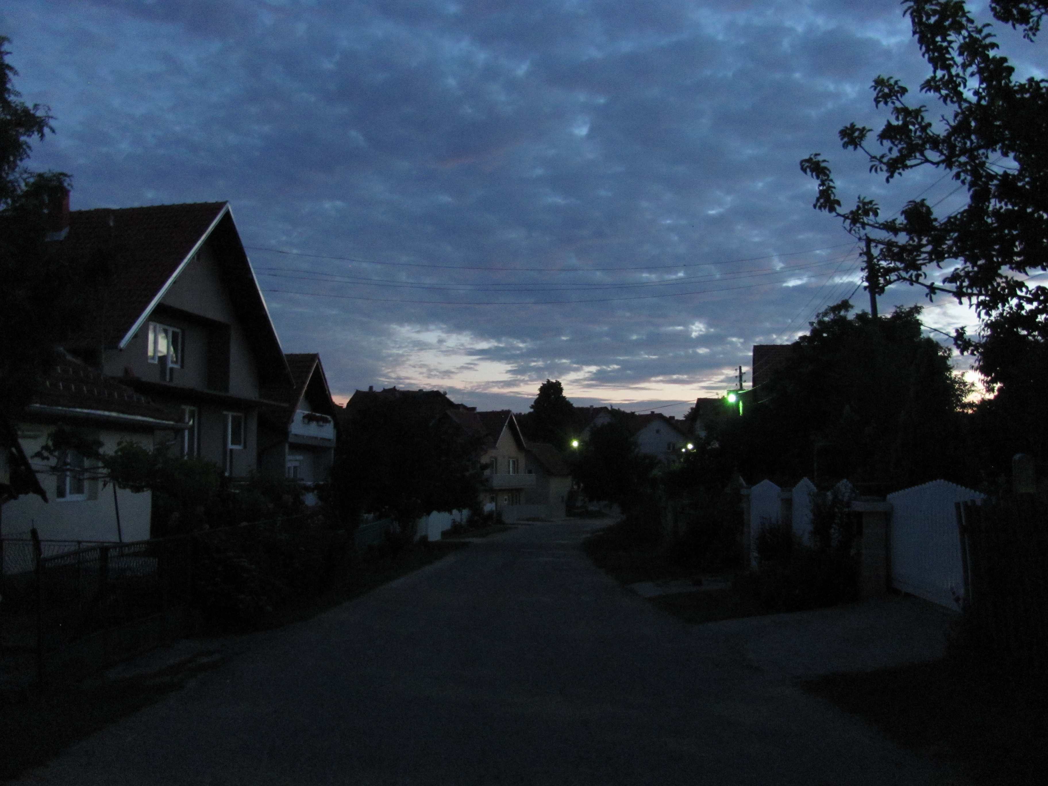 Miroč village at night, Majdanpek, Serbia, June 2017